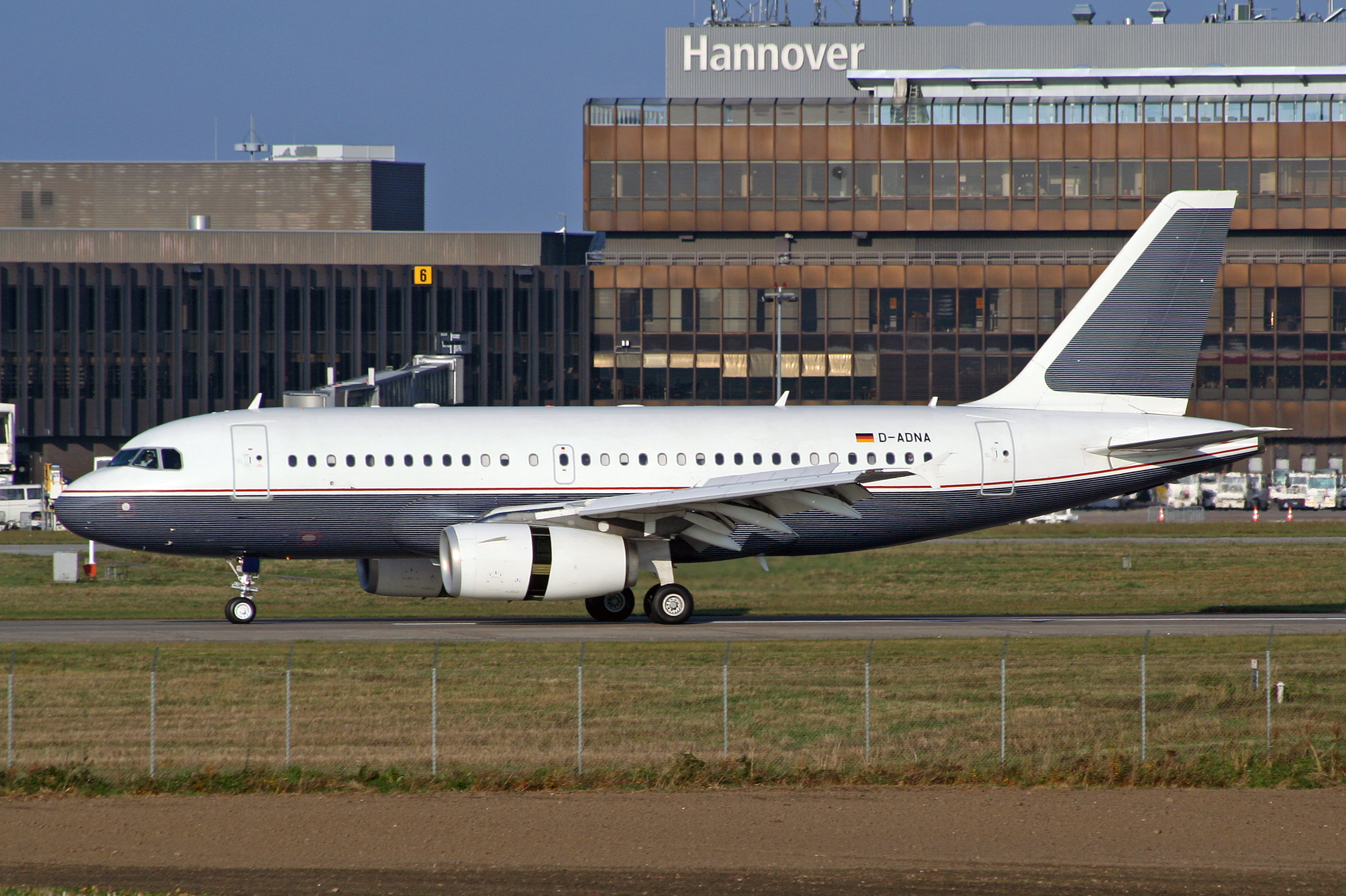 Airbus A319CJ of DC Aviation at Hanover/Langenhagen International Airport